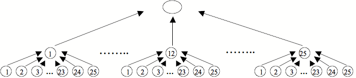 Simple diagram of the parpolity nested council structure. Delegates are sent to higher level councils who in turn send delegates to even higher level councils. The higher level councils are responsible for creating laws that affect larger numbers of people.